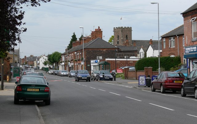 Another view along Melton Road, Thurmaston The tower of St. Michael's Thurmaston Parish Church is visible.